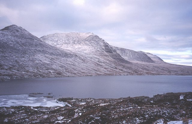 Loch na h-Oidhche. Some say that this loch is named for the good fishing at night (Oidhche - night). It's a notorious windtunnel between Beinn an Eoin and Baosbheinn (hill in picture). The loch was nearly enlarged for hydroelectricity, but permission was not granted.